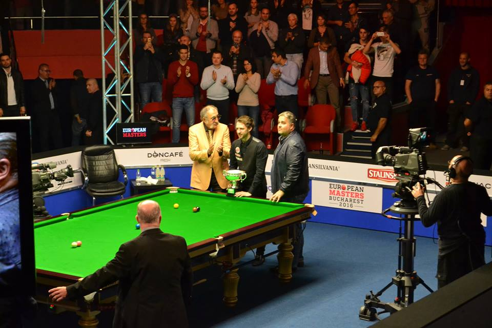 Ion Țiriac hands European Masters trophy to Judd Trump at the end of the 2016 European Masters final in Bucharest, Romania